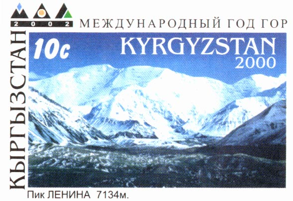 Stamp of Kyrgyzstan